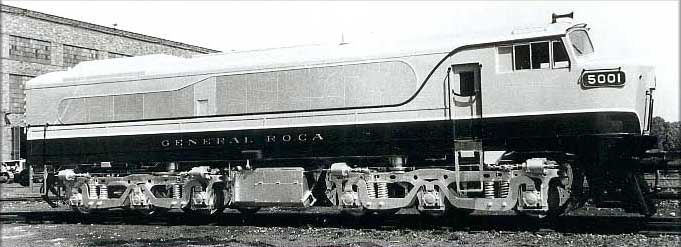 Baldwin Locomotive with the "General Roca" wordmark painted on it. Those machines were acquired to be run on Roca Railway of Argentina.